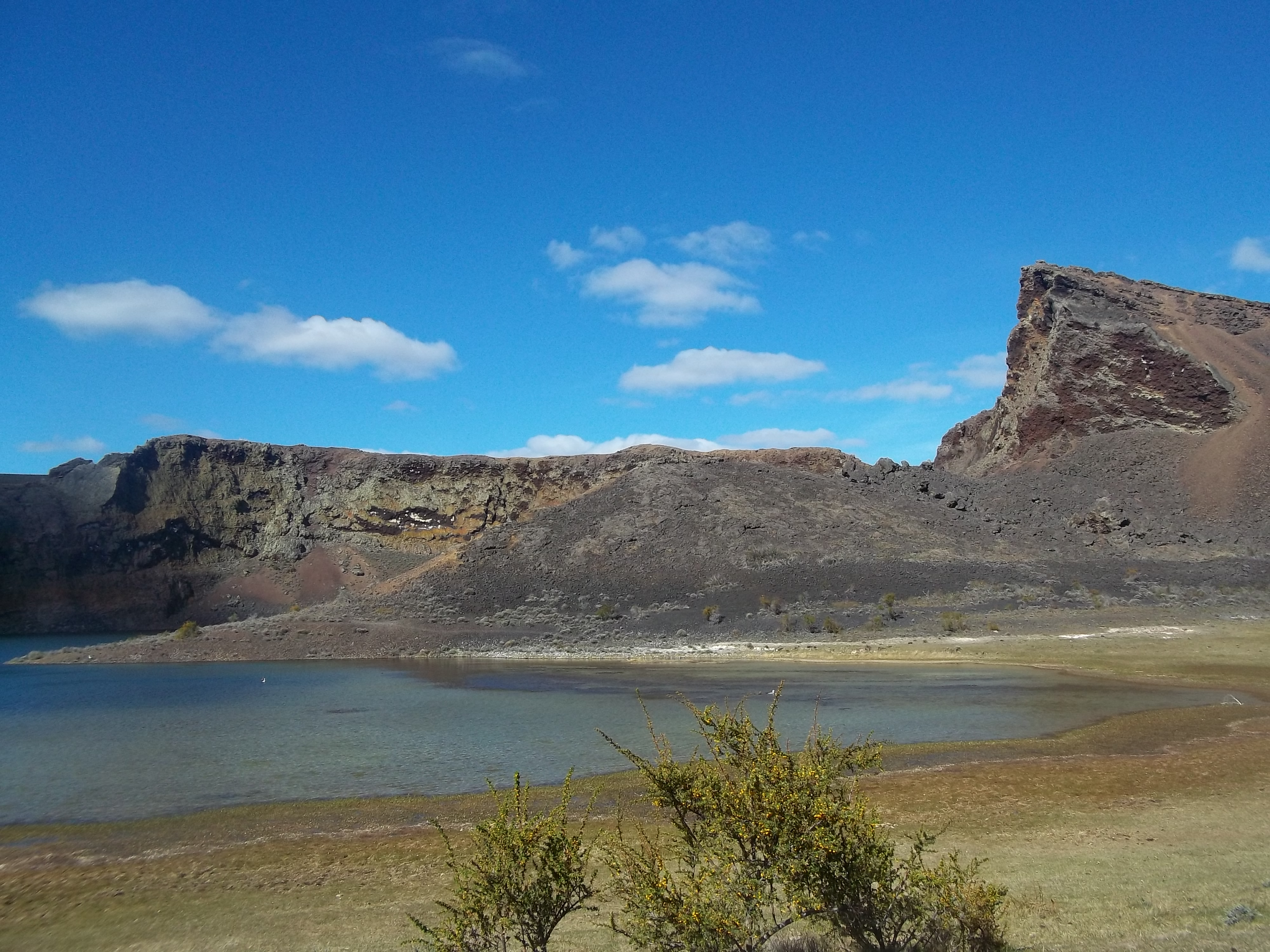 Laguna Azul (Argentina) from inside the volcano crater